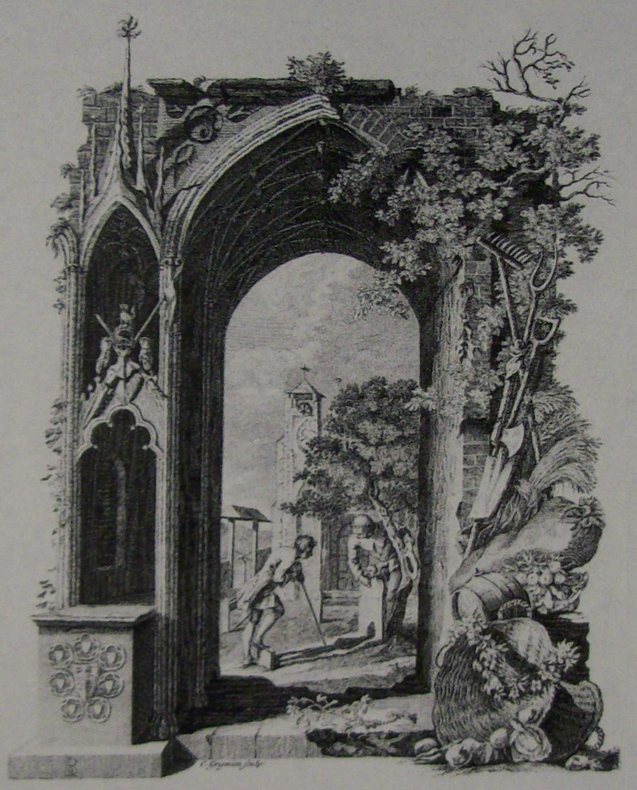 Frontispiece for the illustrated 1753 edition of "Elegy Written in a Country Churchyard".